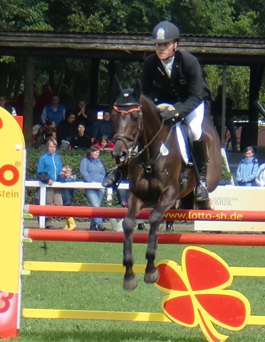 Kai-Steffen Meier and Lacorna, show jumping phase, CIC 2* Schenefeld 2010